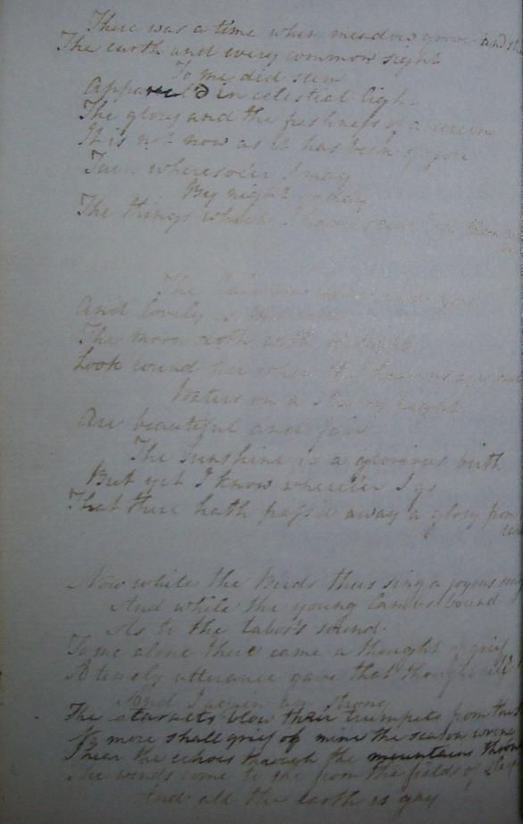 Copy of Ode: Intimations of Immortality by William Wordsworth and transcribed by Mary Wordsworth in a volume for Coleridge, 1804. Later published in Poems, in Two Volumes (1807).